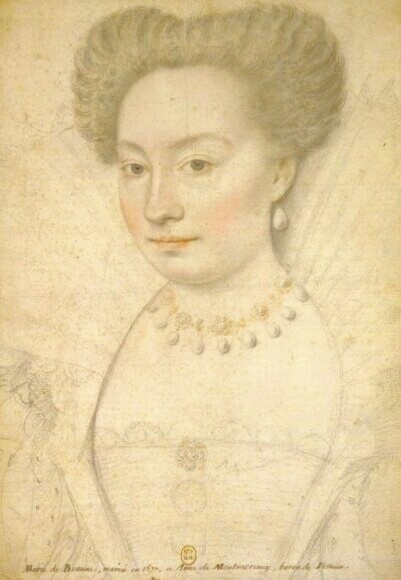 Portrait of Françoise de Montmorency-Fosseux, by François Quesnel.